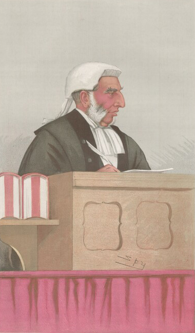 Caricature of The Hon Sir Arthur Kekewich (1832-1907). Caption read "A hasty Judge".